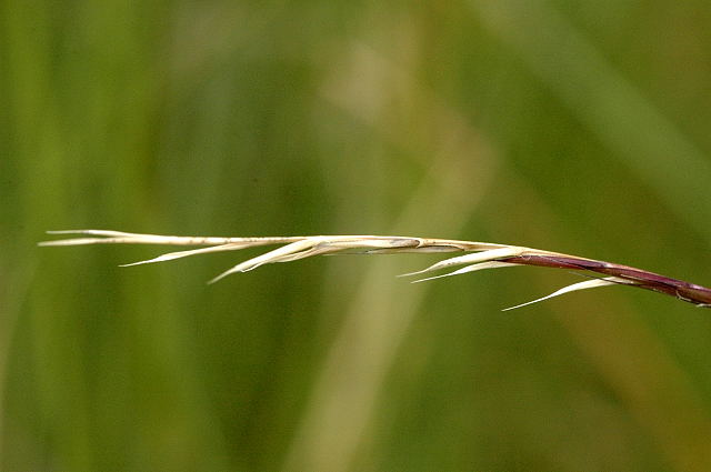 Picture taken in Commanster, Belgian High Ardennes . Species: Nardus stricta